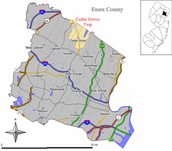 Source: Jim Irwin Original work by Jim Irwin, December 2005.